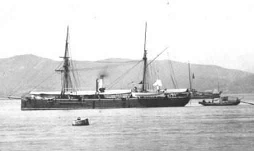 Chinese warship Fuxing